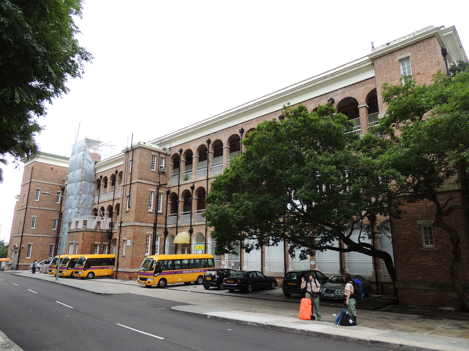 East wing, Main Block, Old British Military Hospital